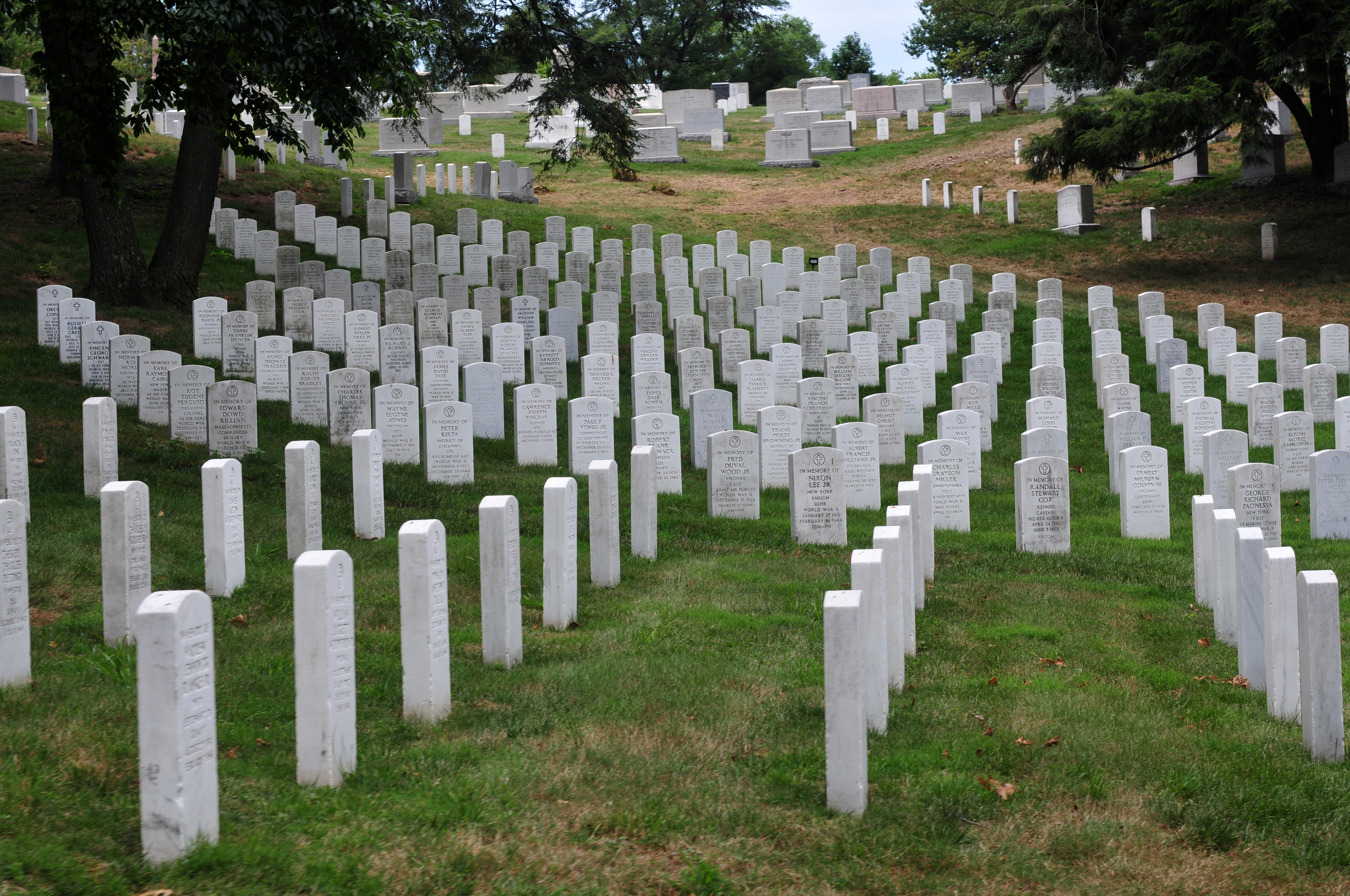 national cementery Arlington, Virginia